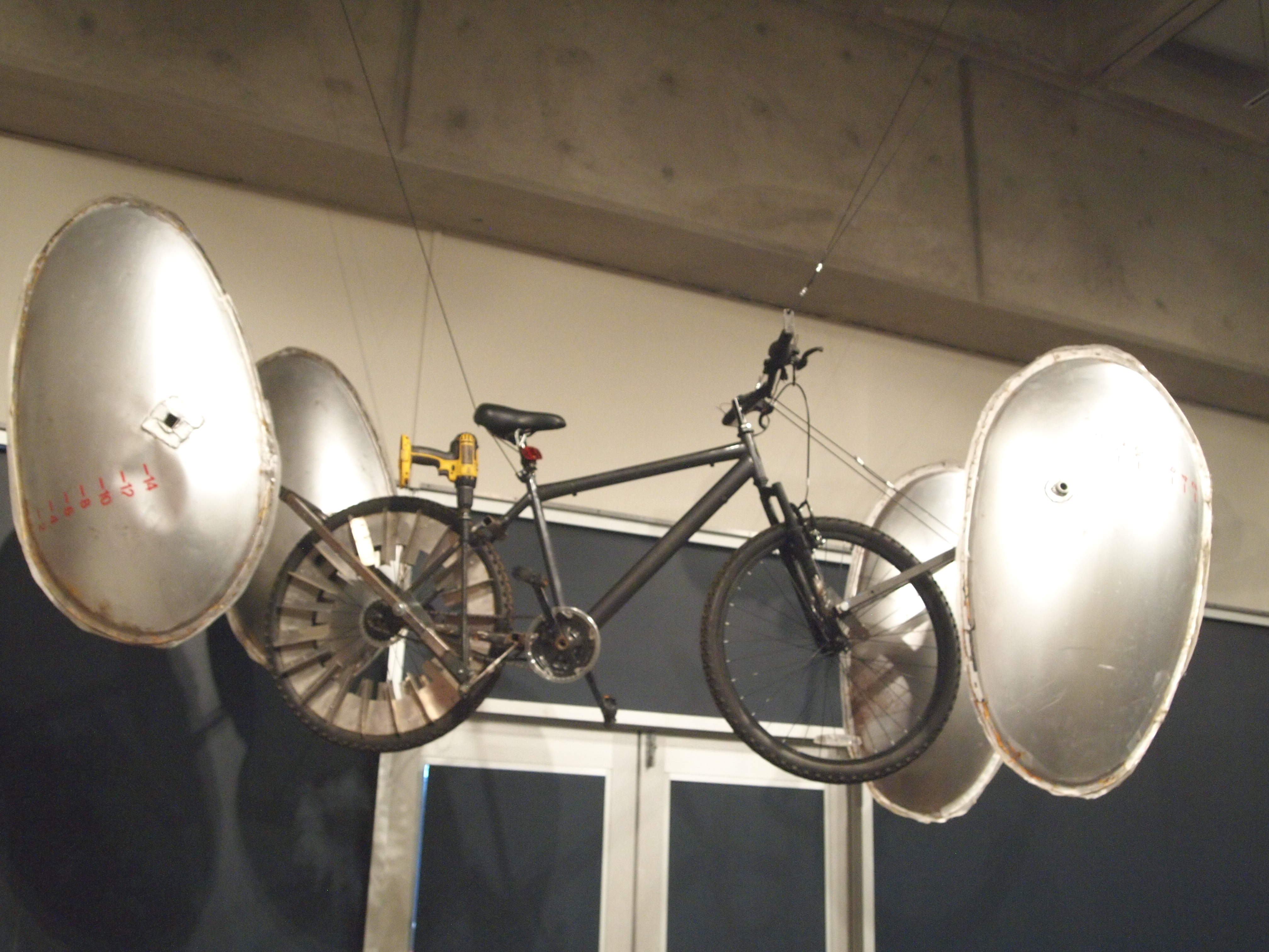 MythBusters Jamie Aqua Bike